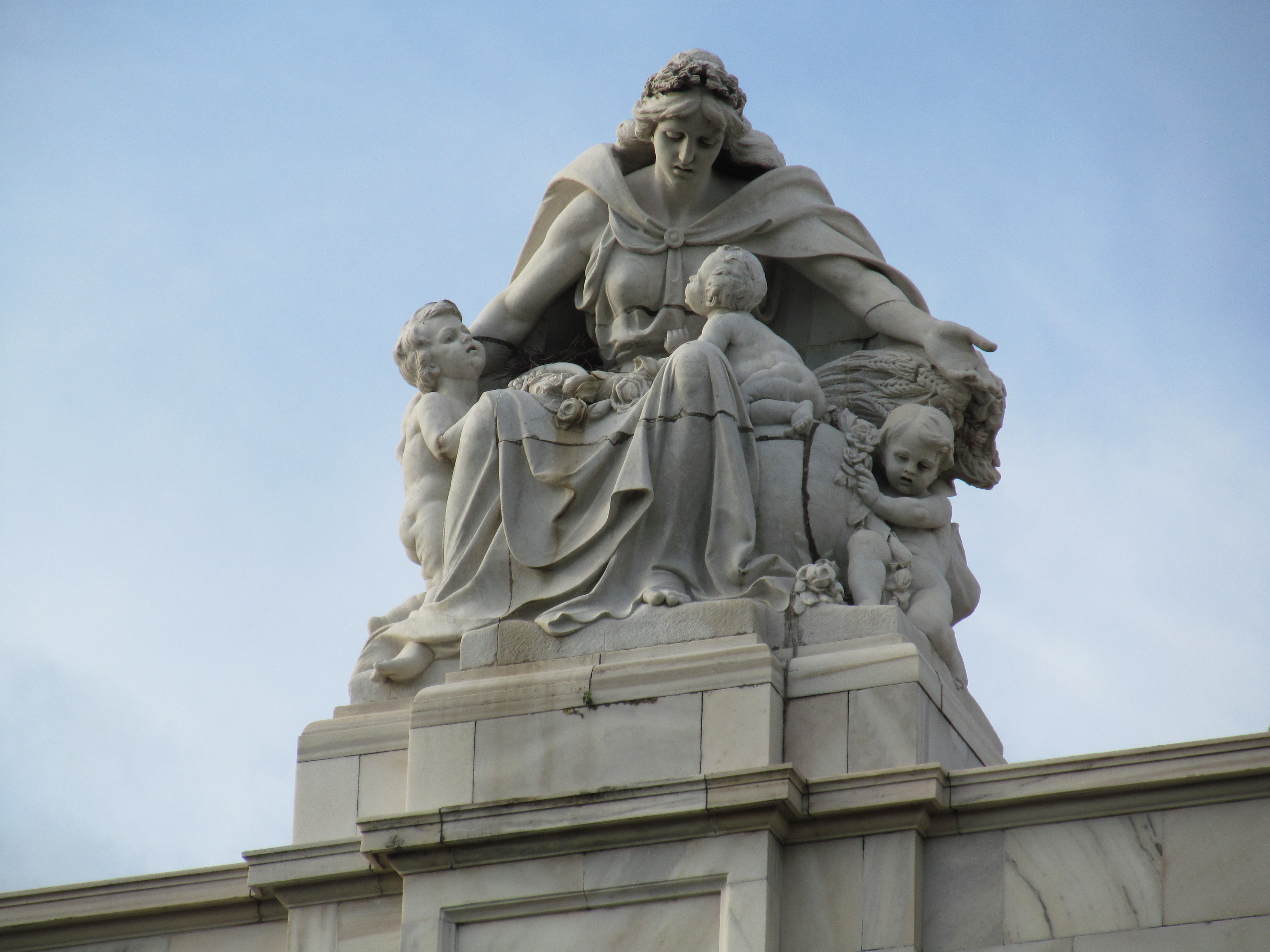 Victoria Memorial Hall, a memorial building dedicated to Victoria, Queen of the United Kingdom, located in Kolkata, India